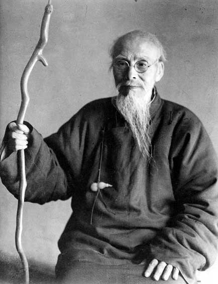 1946 photograph of Qi Baishi, by Lang Jingshan